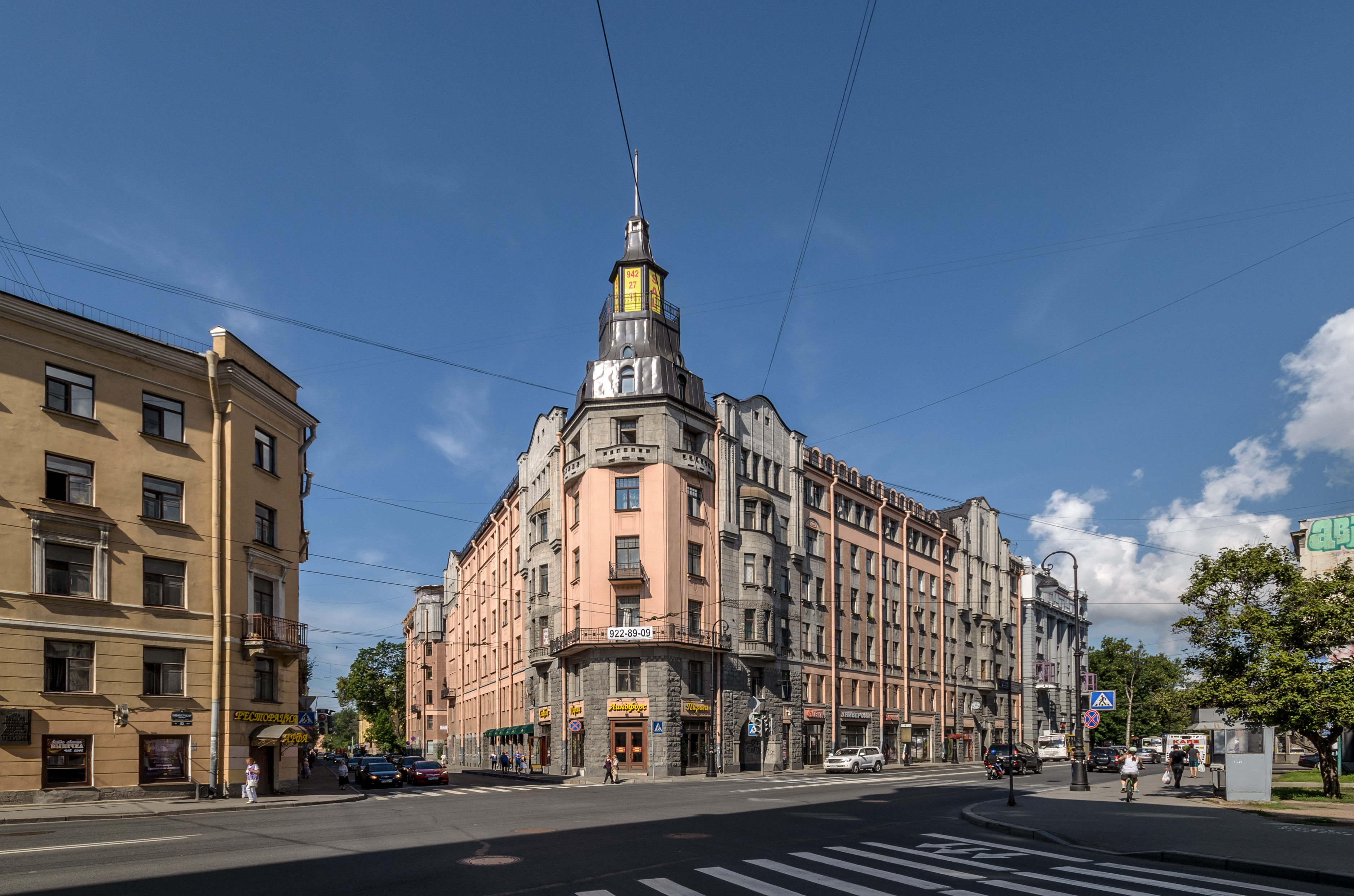 Kamennoostrovsky Avenue in Saint Petersburg